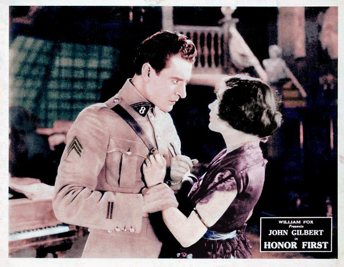 Lobby card for the film Honor First (1922), starring John Gilbert and Renée Adorée.